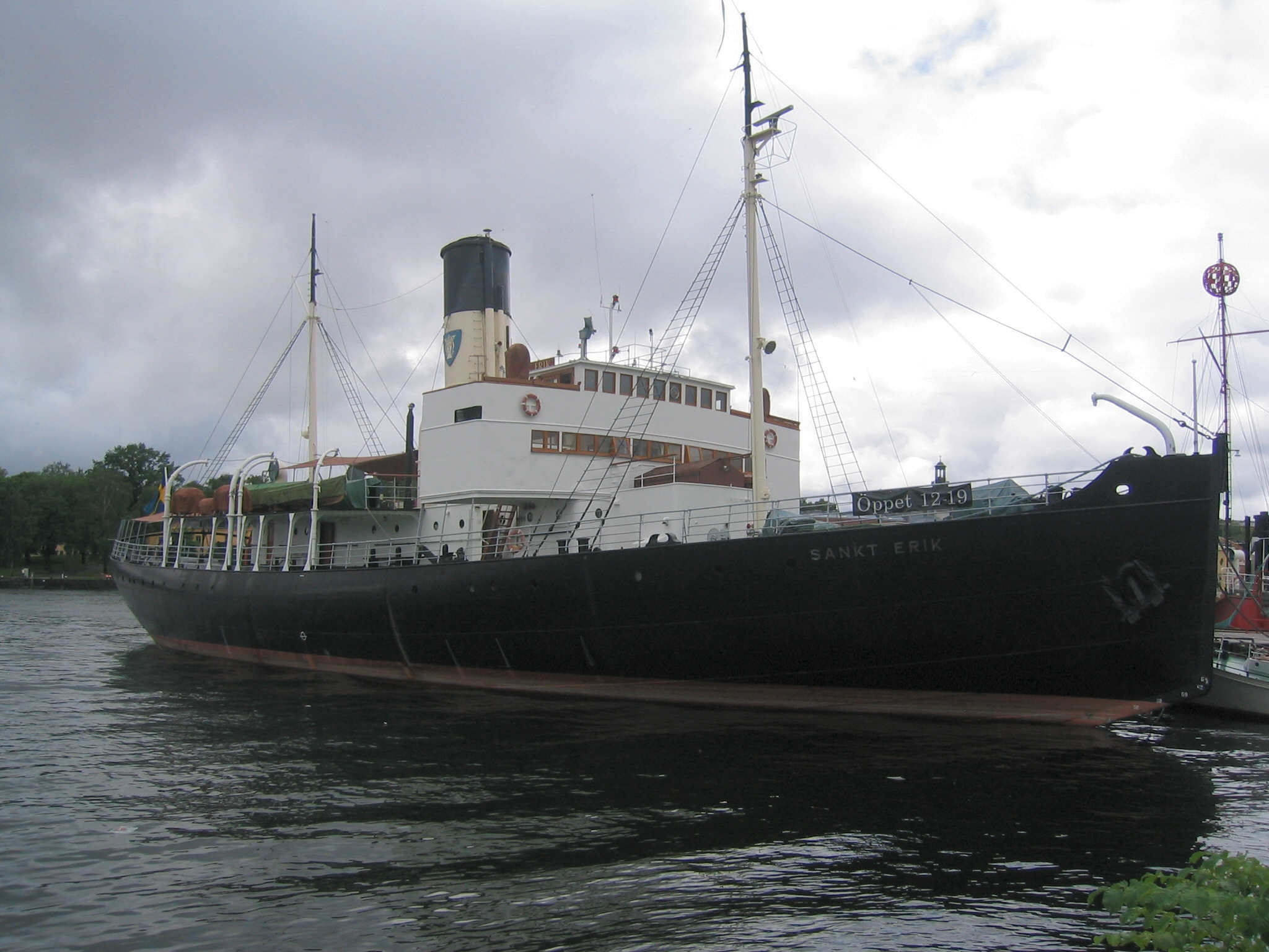 The Sankt Erik is an icebreaker launched in 1915, and a museum ship attached to the Vasa Museum in Stockholm, Sweden.